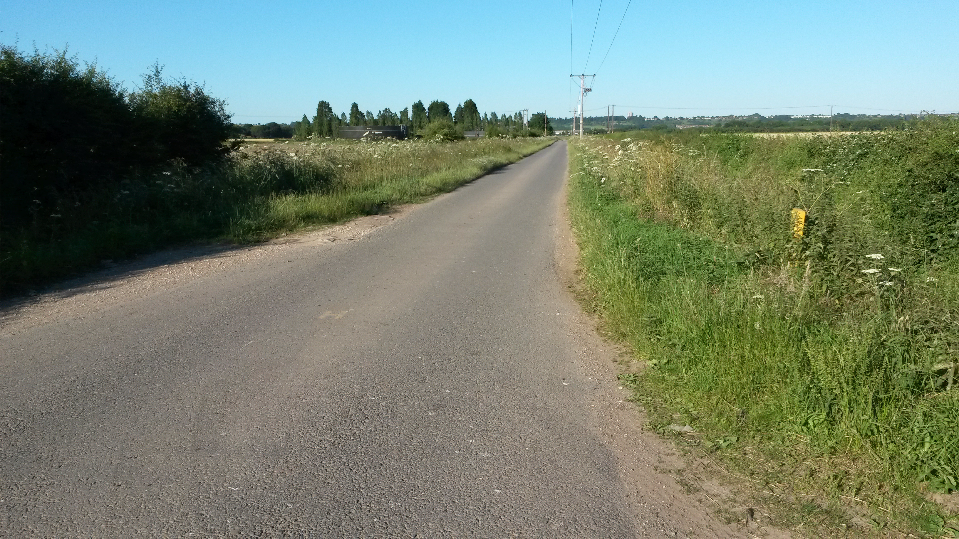 Ferry Lane, Skellingthorpe: the old route to the Fossdyke, which now ends in a dead-end.